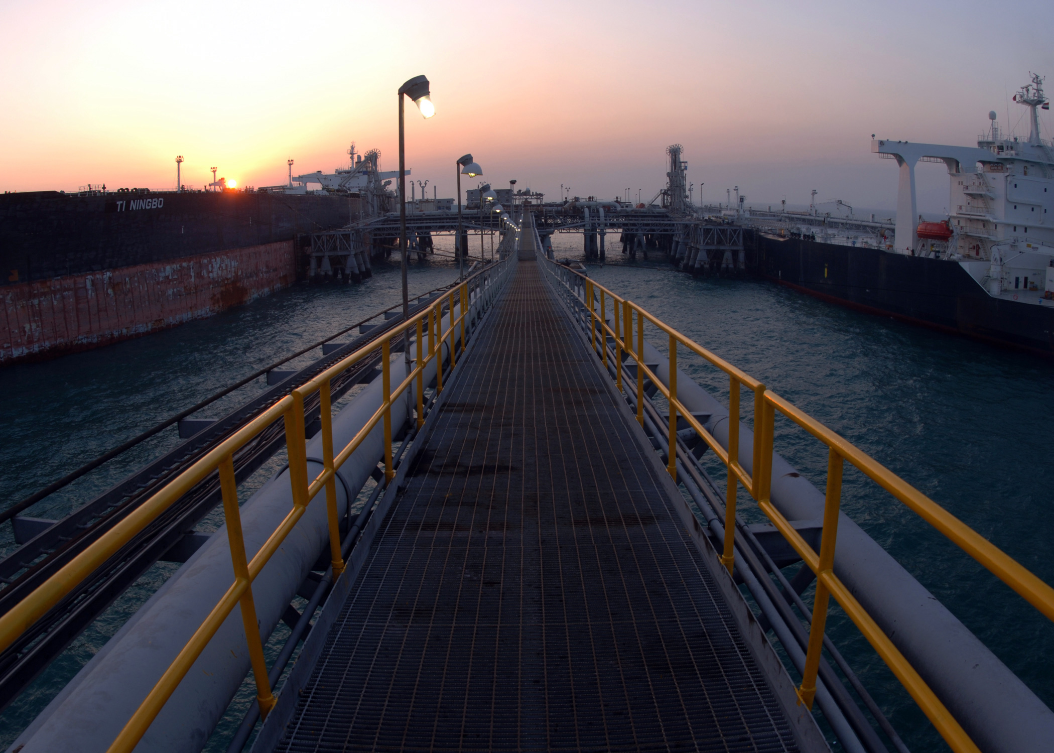 Persian Gulf (Nov. 20, 2005) - The sun rises over the Al Basra Oil Terminal (ABOT) in the North Persian Gulf. The terminal, located off the coast of Iraq, is one of two major platforms that export the majority of the country's oil. Coalition forces have been training Iraqi personnel in force protection and search and seizure operations in effort to turn over the oil terminals in the area to Iraq. U.S. Navy photo by Photographer's Mate 1st Class Curt Cooper (RELEASED)